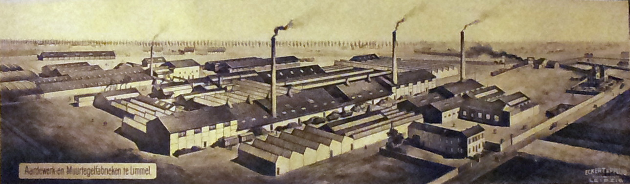 Bird view of the Limmel location of the "De Sphinx" potteries in Maastricht, Netherlands, shortly after 1900.